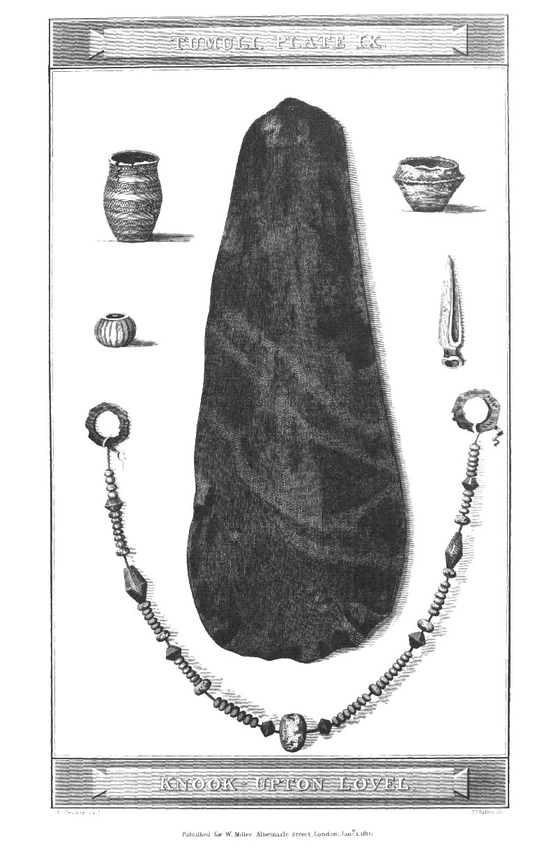 A pencil sketch of findings from various tumuli at Knook and Upton lovell